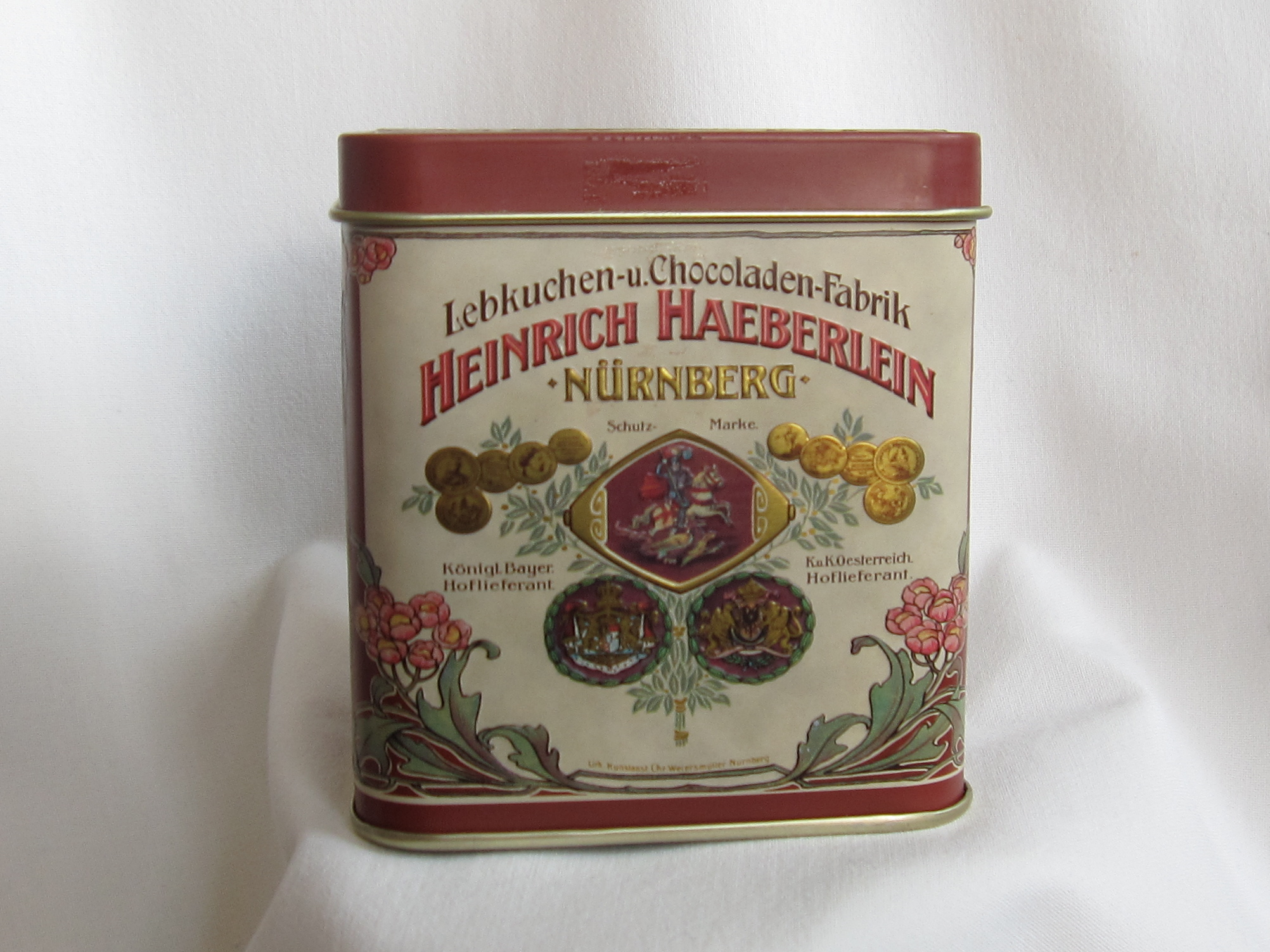 Tin box for ginger bread by Heinrich Haeberlein.